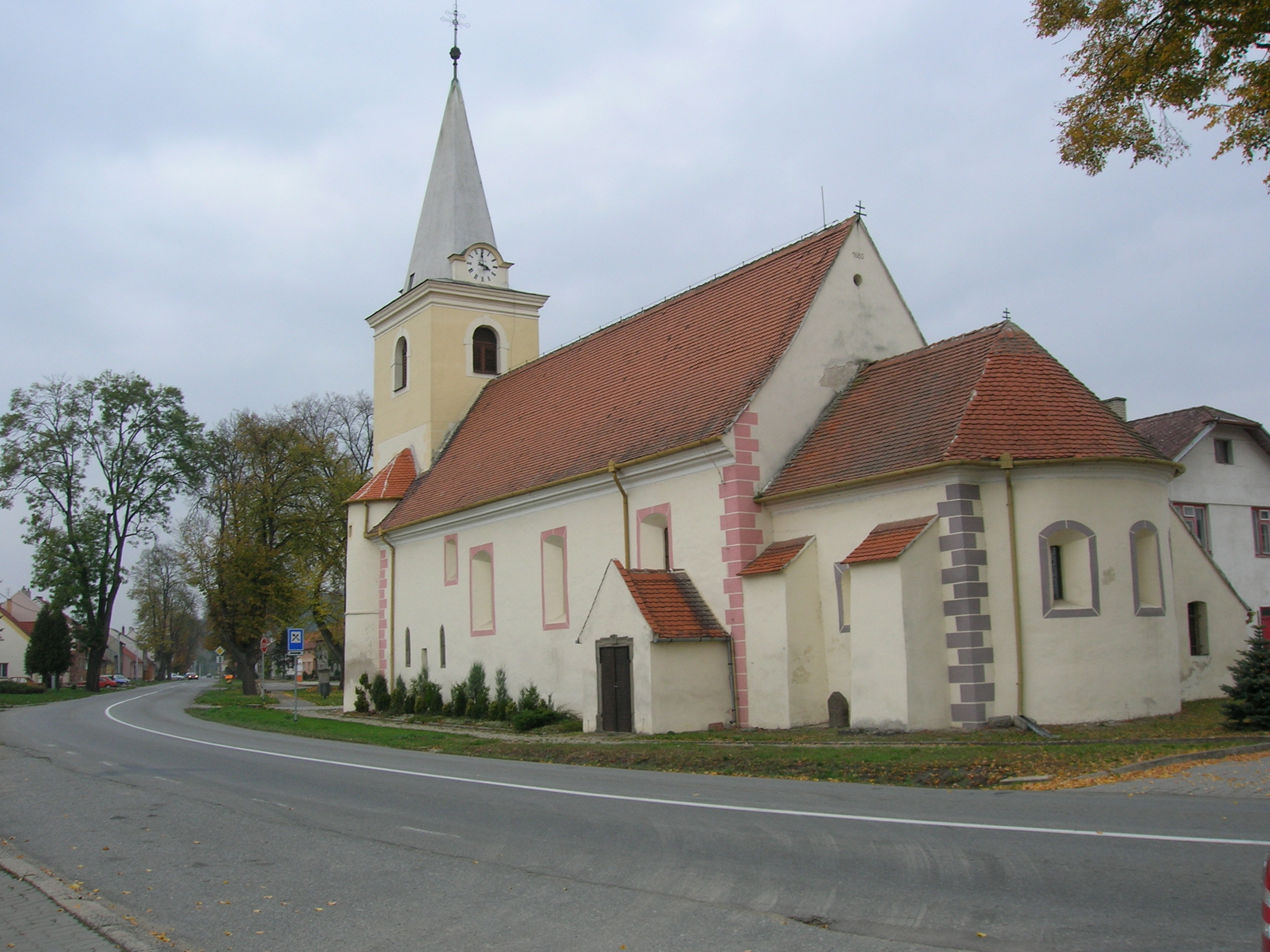 Holy Trinity church in Vladislav, Třebíč District, Czech Republic